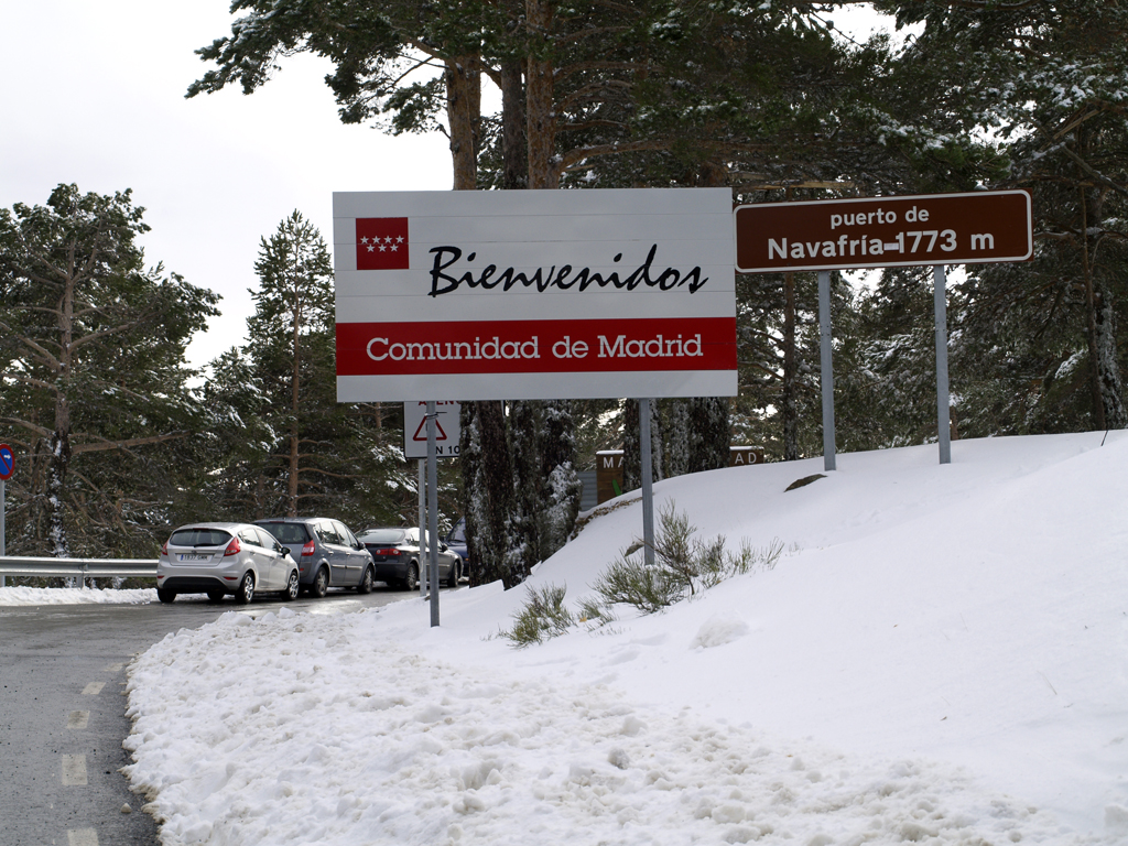 Navafría mountain pass (1,773 m) in the Sierra de Guadarrama (Sistema Central) between Madrid and Segovia provinces.